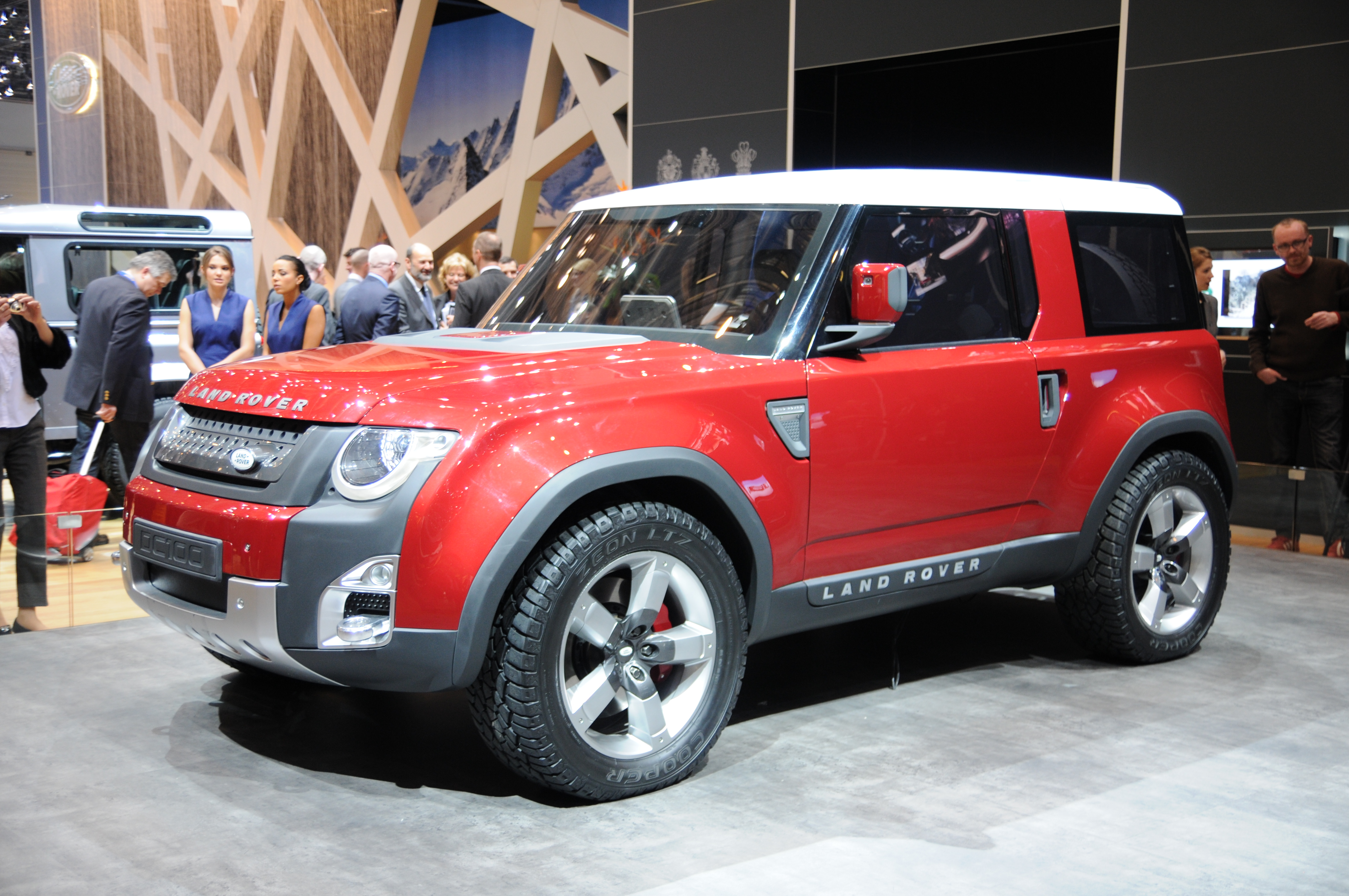 Geneva Motor Show 2012 (photos taken on the second press day)